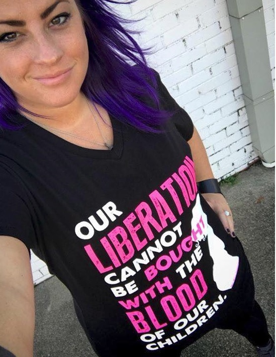 Destiny Herndon-De La Rosa in a New Wave Feminist t-shirt